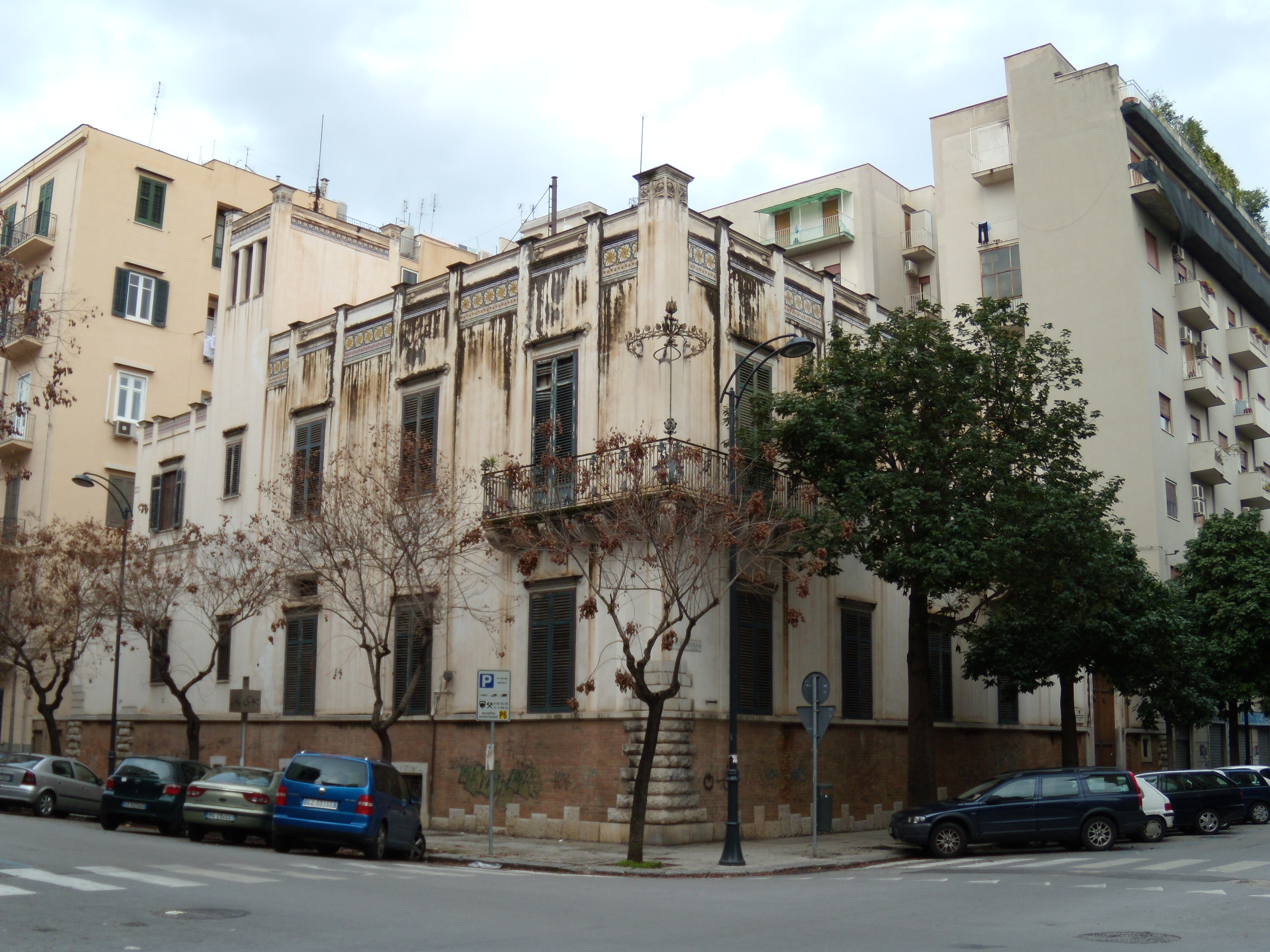 Elevation of Villino Ida Basile, Palermo